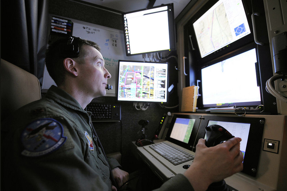 HOLLOMAN AIR FORCE BASE, N.M. – Maj. Jeremy Fields, chief of standard evaluations with the 6th Reconnaissance Squadron, pilots an MQ-1 Predator during a training mission at Holloman, Feb. 18. The 6th RS mission is to train pilots and sensor operators to execute combate operations with MQ-1 Predators. (U.S. Air Force photo/Airman 1st Class Veronica Stamps)